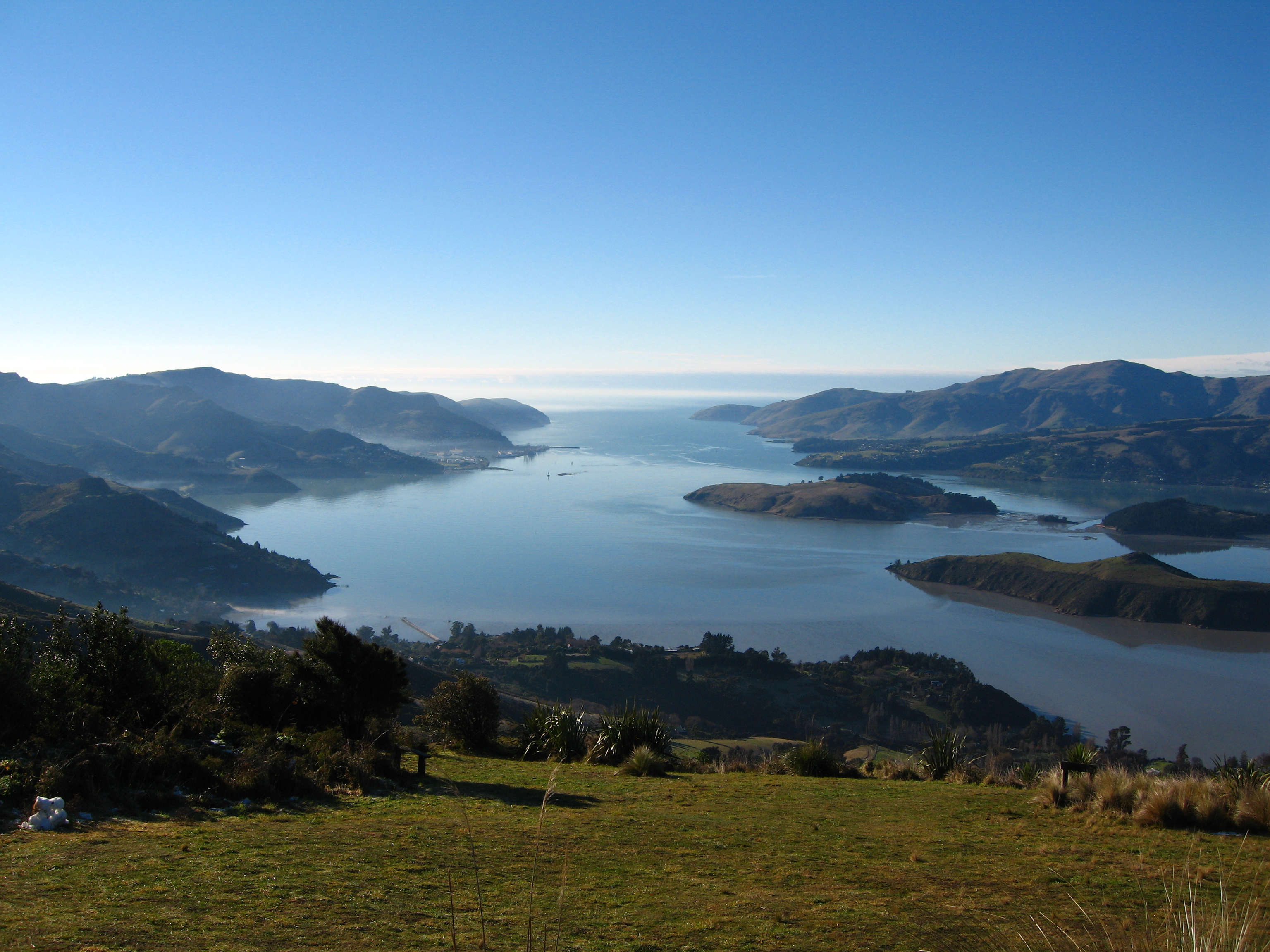 Lyttelton Harbour (Otamahua / Quail Island right of center).